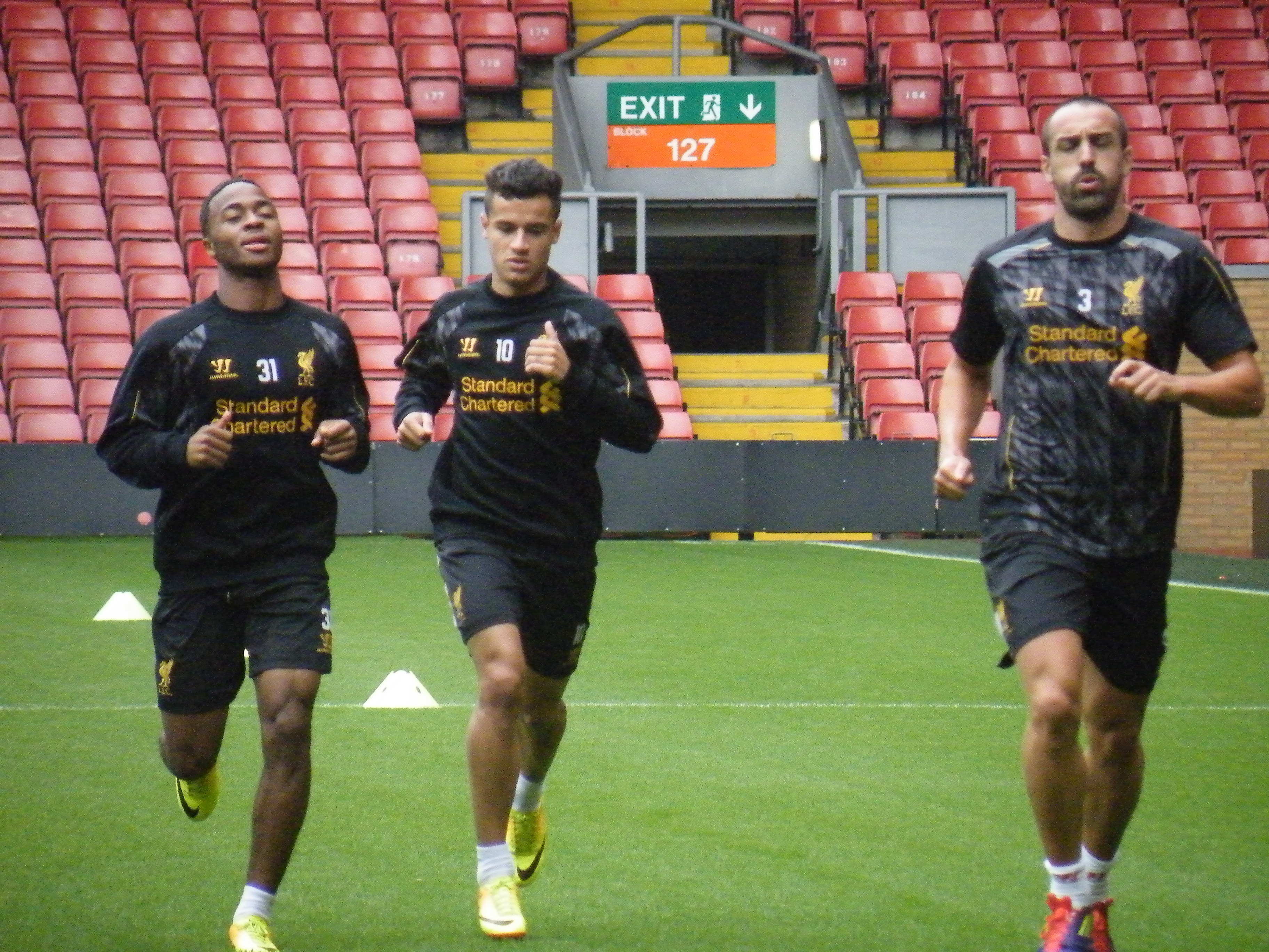 Raheem Sterling, Coutinho and Jose Enrique during open training session at Anfield in August 2013.